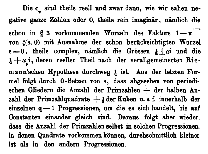 Part of page 40 of Adolf Piltz: "Über die Häufigkeit der Primzahlen in Arithmetischen Progressionen und über Verwandte Gesetze", the habilitation thesis of Piltz (1884).